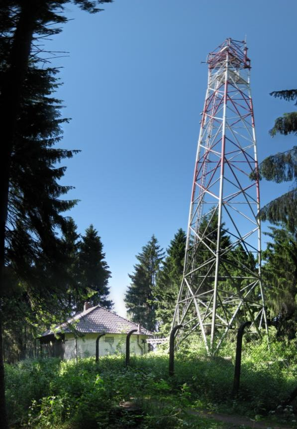 Halle (Westf.) - tower of German Rail (Deutsche Bahn AG) for directional radio on the Eggeberg, decommissioned